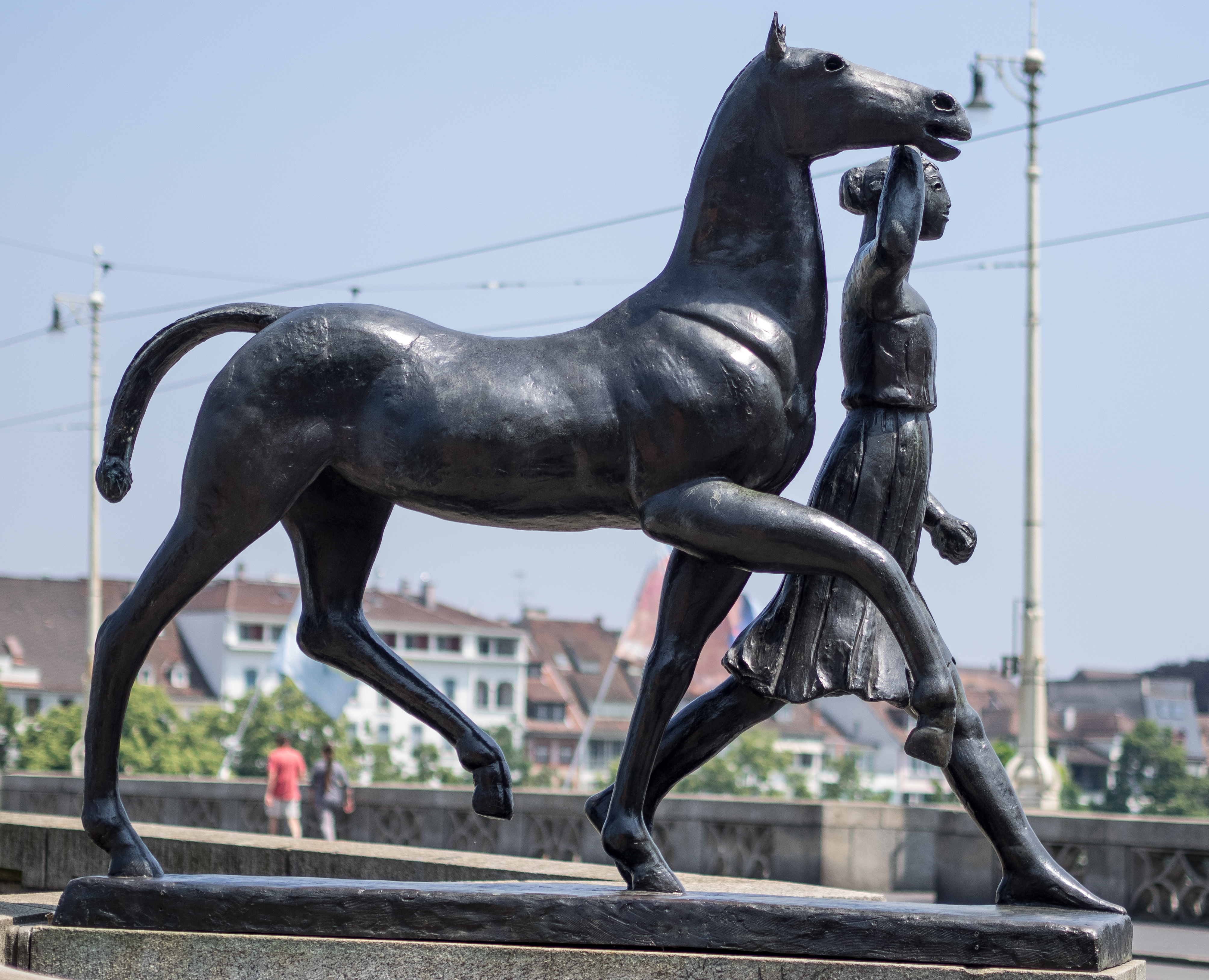 Skulptur "Amazone, Pferd führend" by Carl Burckhardt, placed at Mittlere Brücke in Basel, Switzerland.